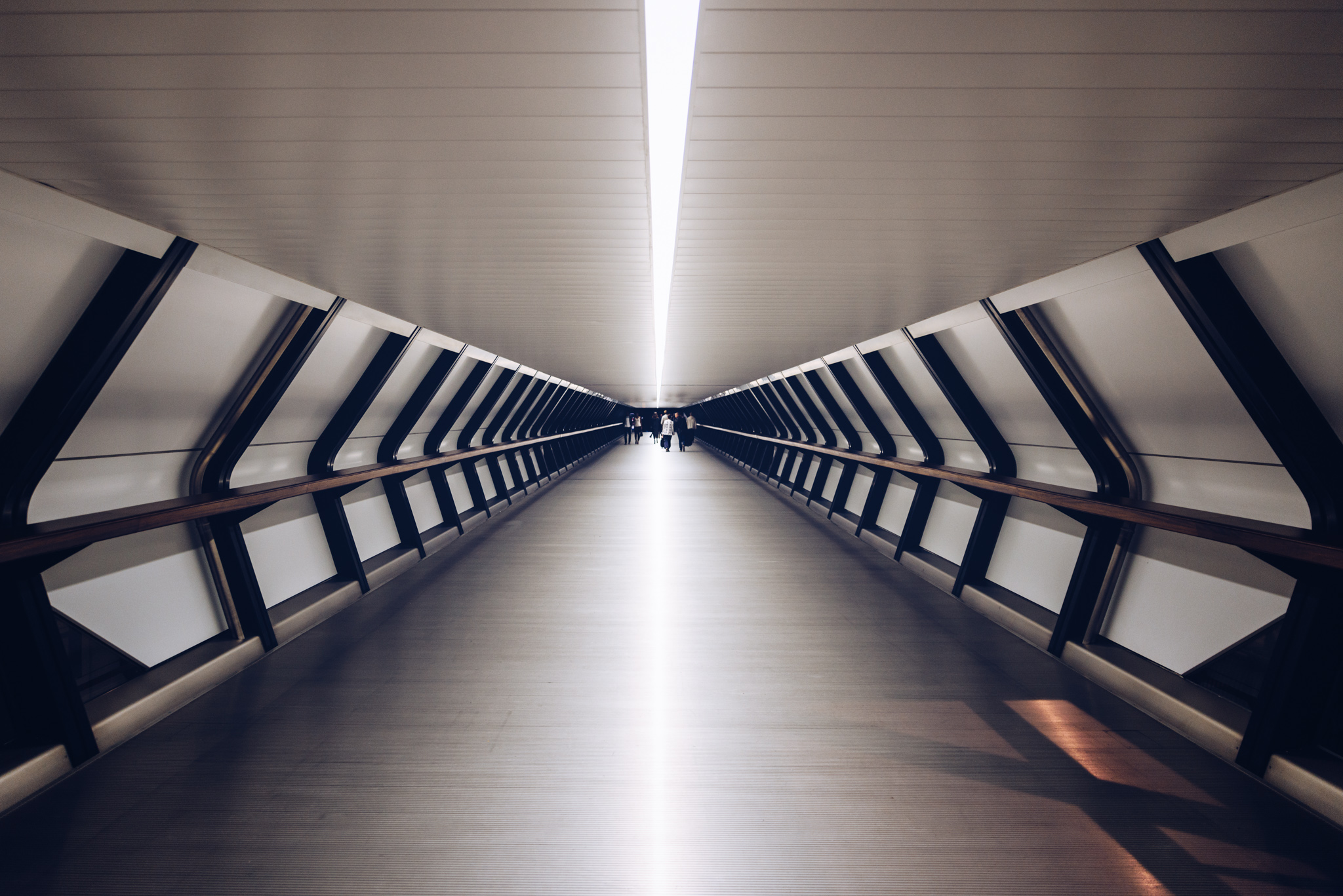 Corridor, Canary Wharf